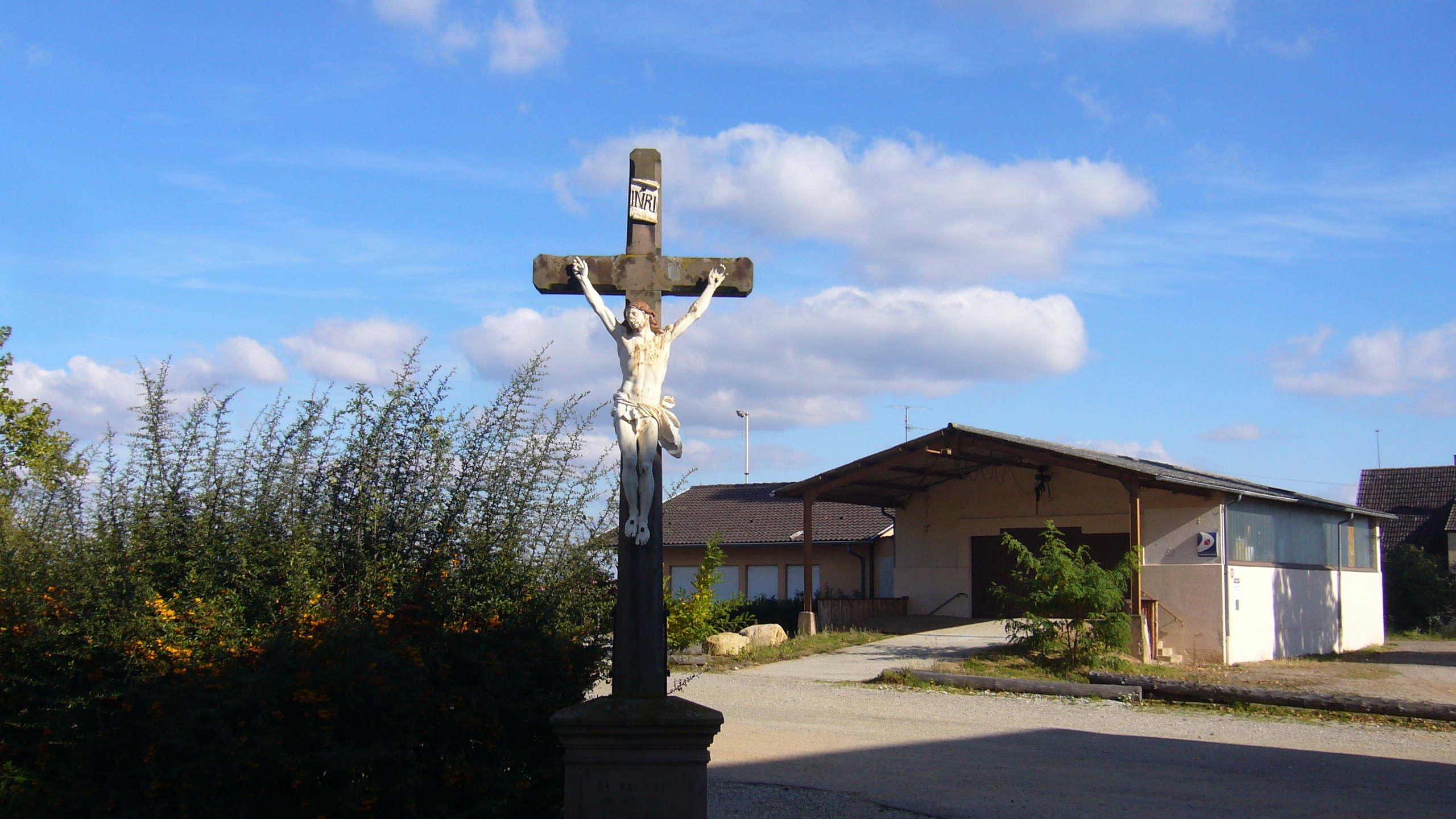 Saint-Hippolyte A 008.JPG